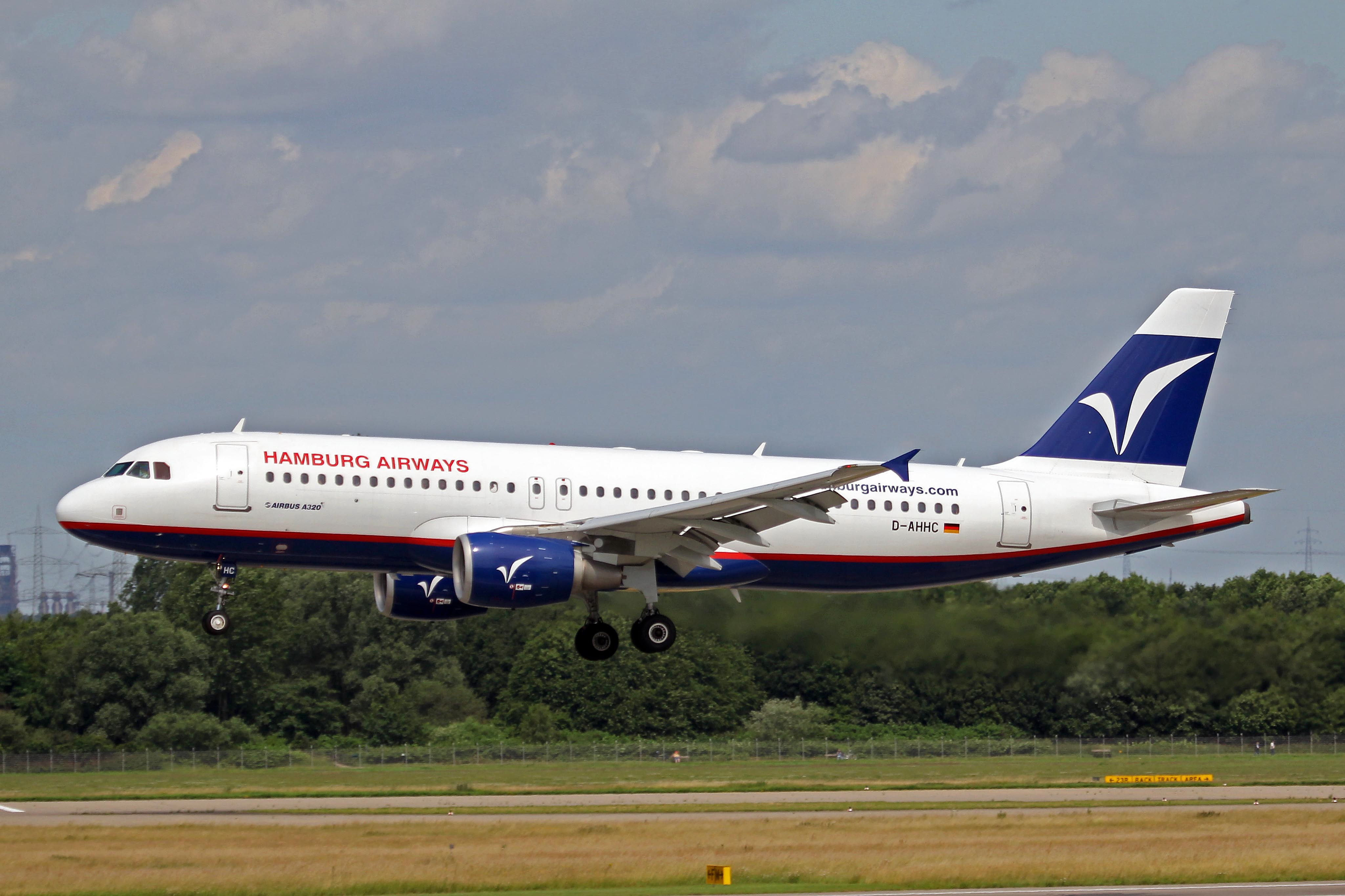 A picture of an airplane (name of it is on the file name).